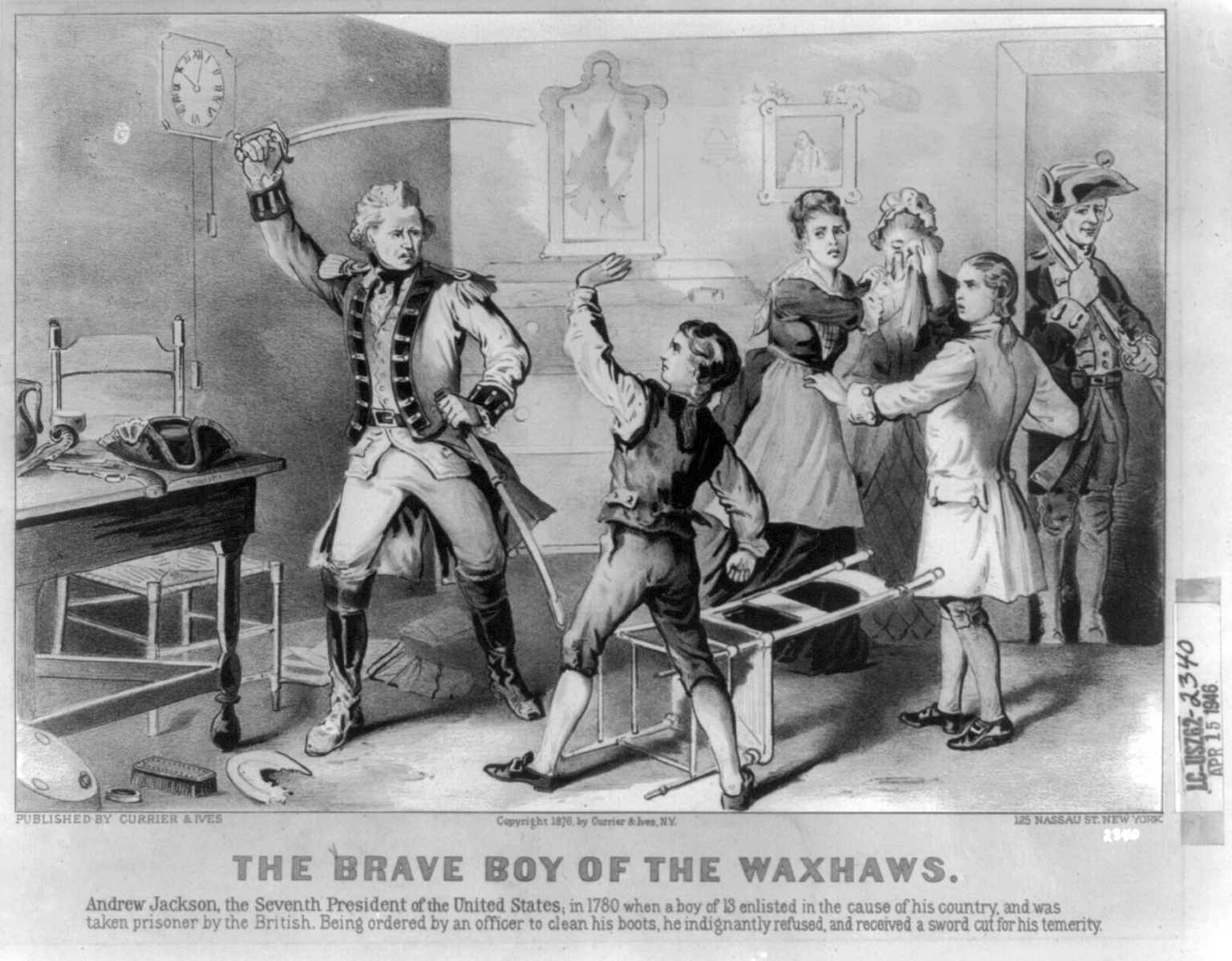 "The Brave Boy of the Waxhaws". Depicts incident in the childhood of Andrew Jackson, showing the lad standing up to British soldier. As depicted a century later in an 1876 lithograph.